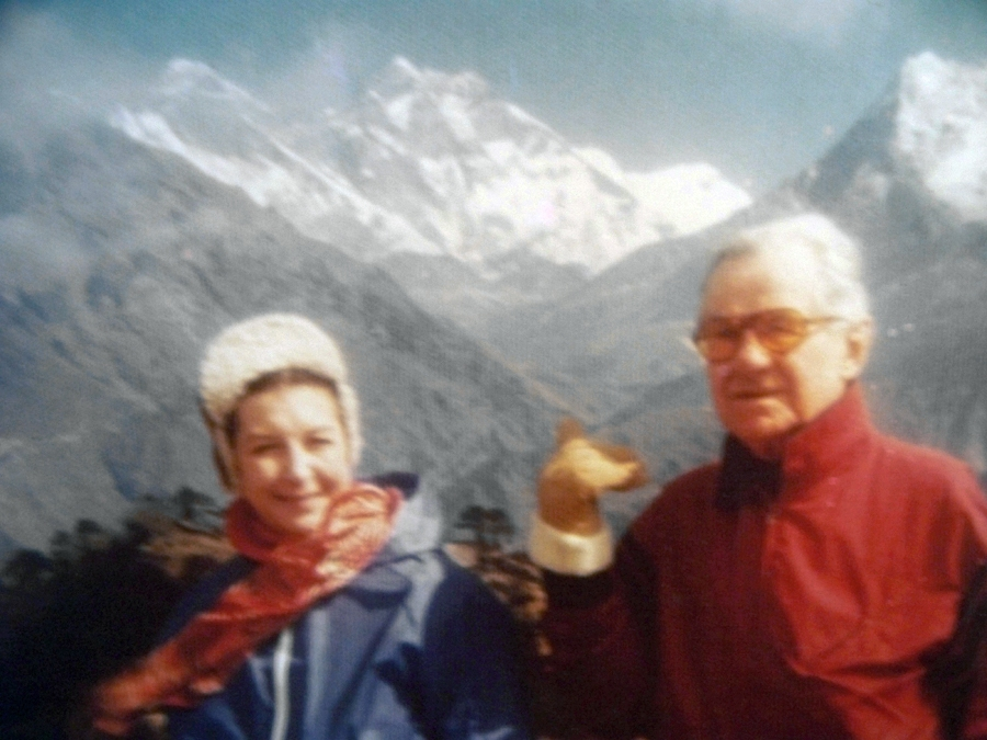 Lowell & Marianna during one of their adventures. Mrs. Thomas presently resided in the Dayton, Ohio area. On January 28th, 2010, Mrs. Lowell (Marianna) Thomas passed away.